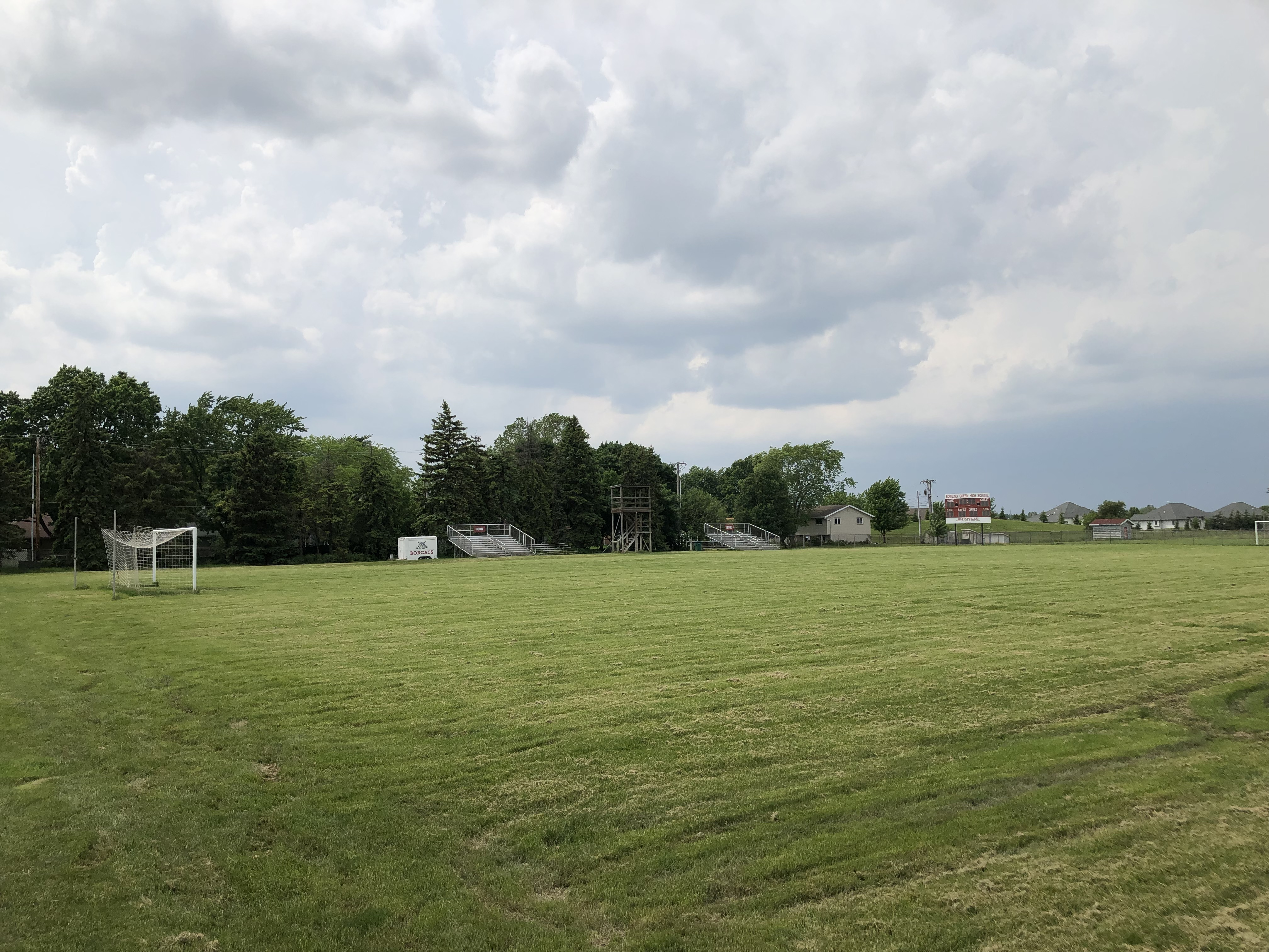 Bowling Green High School Soccer Field. The home team is the Bobcats.